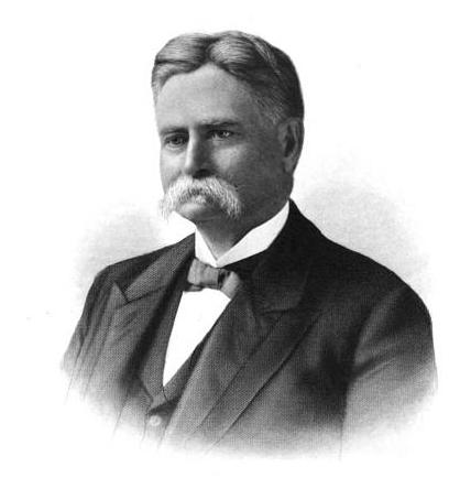 Bartlett Tripp (born Harmony, Maine, July 15, 1839; died Yankton, South Dakota, December 8, 1911) was an American lawyer, judge, and diplomat.